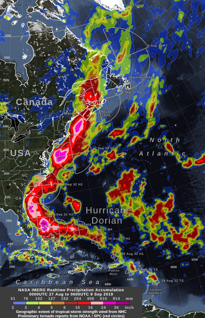 The near-real-time rain estimates come from the NASA’s IMERG algorithm, which combines observations from a fleet of satellites, in near real time, to provide near-global estimates of precipitation every 30 minutes. Supplementary, circles at one-day intervals show the distance that tropical-storm-force (39 mph) winds extended from Hurricane Dorian’s low-pressure center, as estimated by the National Hurricane Center. The Saffir-Simpson hurricane-intensity category is the number following the “H” in the label on the image. “TS” or “PT” indicate times when the storm was either at tropical storm strength or when the storm was categorized as post-tropical. Red circles over North Carolina indicate preliminary reports of tornadoes on Sept. 5.